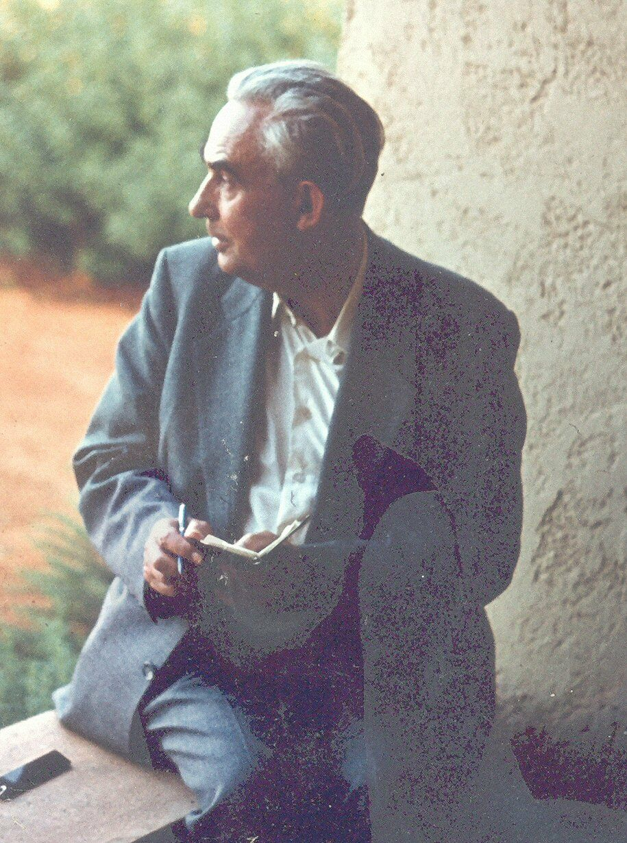 Photo of the german zoologist Willi Hennig, made by Irma Hennig. Publication under GFDL allowed.